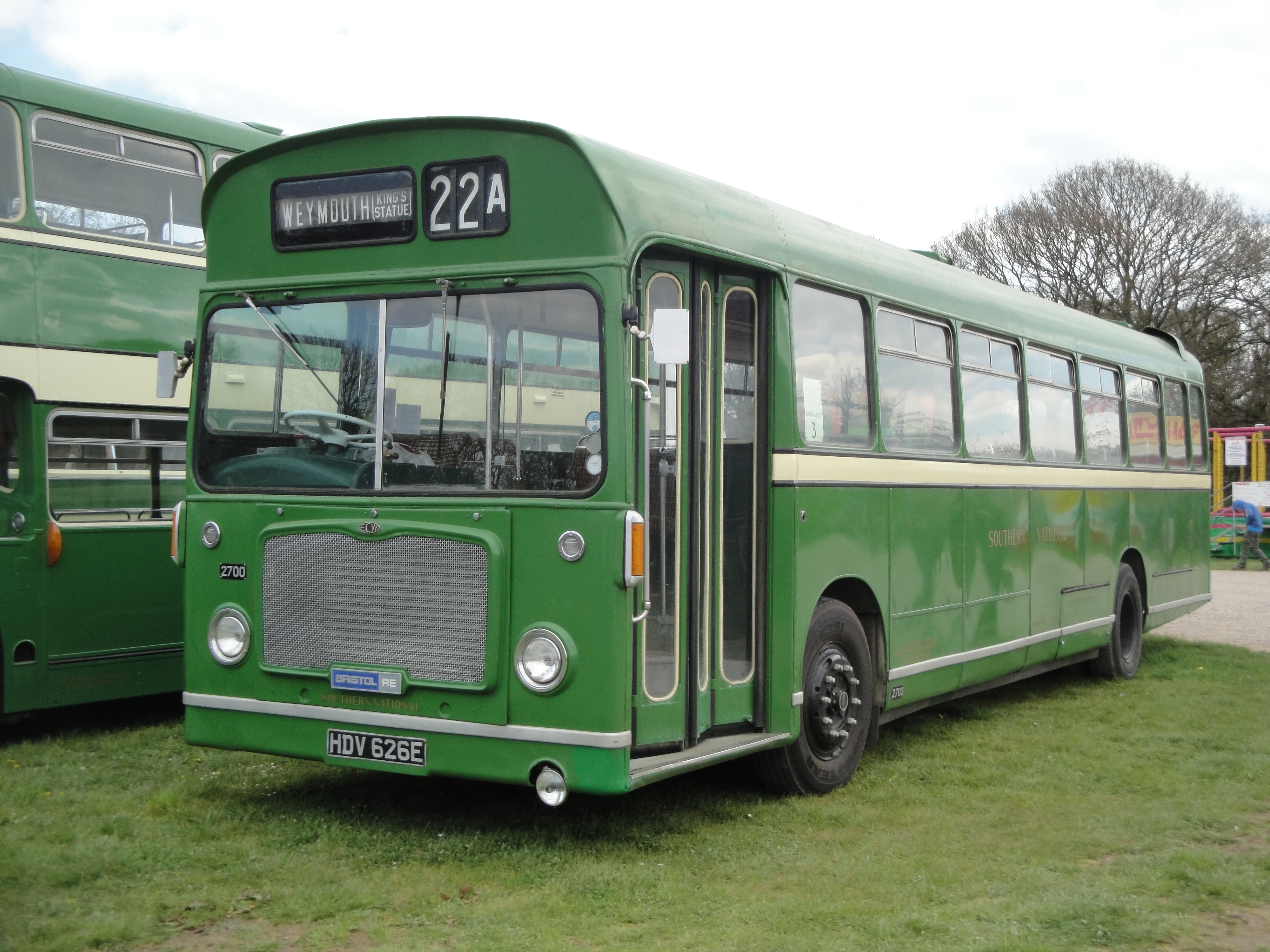 Southern National 2700 (HDV 626E), a Bristol RELL6G/Eastern Coach Works, at Havenstreet railway station, Isle of Wight for the Bustival 2012 event, held by Southern Vectis.